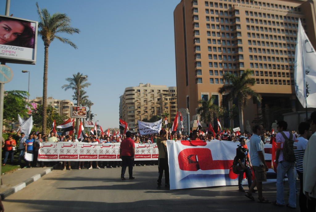 Anti-Morsi protest march in Egypt